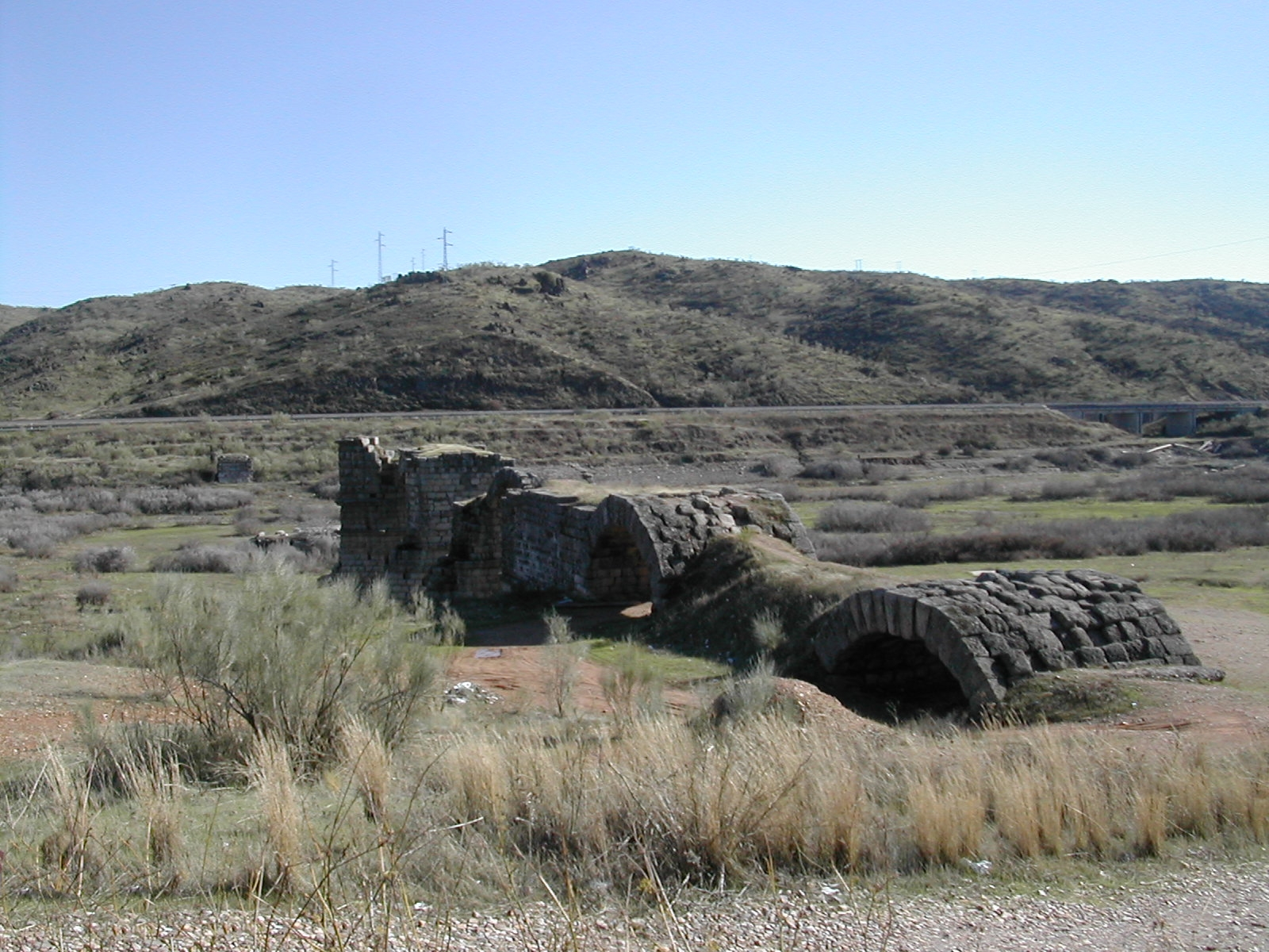 The remains of the Roman Puente de Alconétar (Alconétar Bridge), Cáceres Province, Spain. The ancient segmental arch bridge originally crossed the Tajo river near the village of Garrovillas. In 1972, during the construction of the Alcántara reservoir, the structure was moved 6 km upstream to its current location.